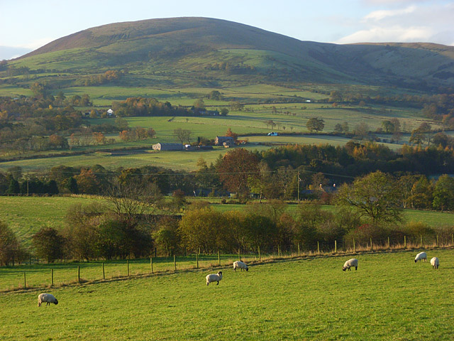 Pastoral view, Hutton Looking towards Little Mell Fell from the end of a track south of the A66.